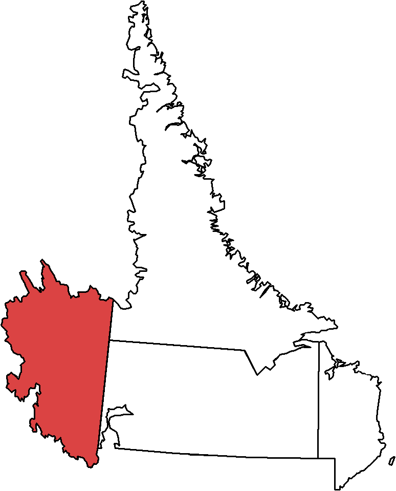 Map based on work by Earl Andrew, from maps used in 2007 elections